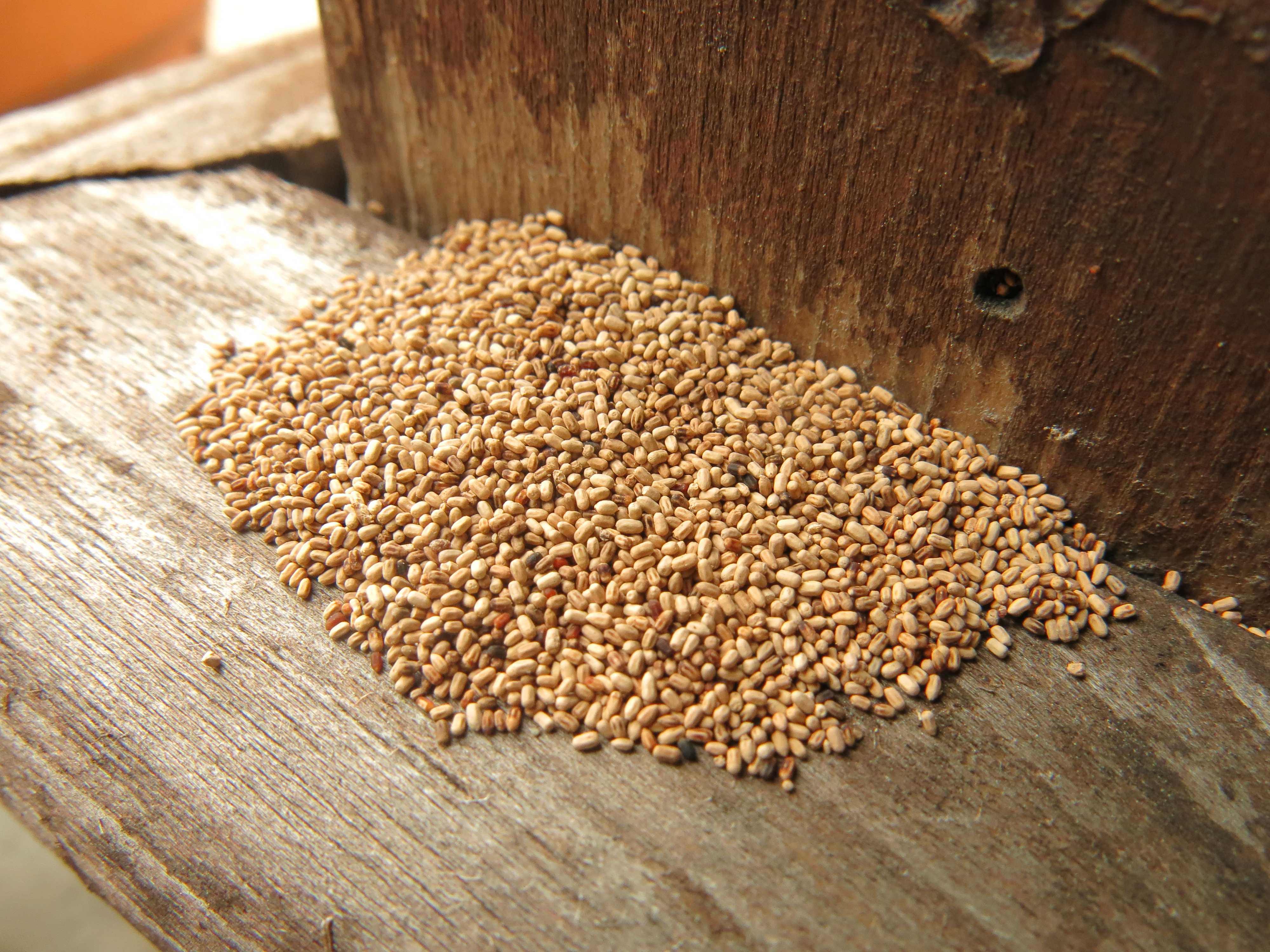 Termite fecal pellets on a wooden arbor. Size of each pellet is about 1 mm in length.